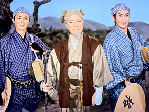 From left:Chiyonosuke Azuma, Ryūnosuke Tsukigata and Kōtarō Satomi in 1959 Japanese movie Mito Kōmon Tenka no hukushōgun